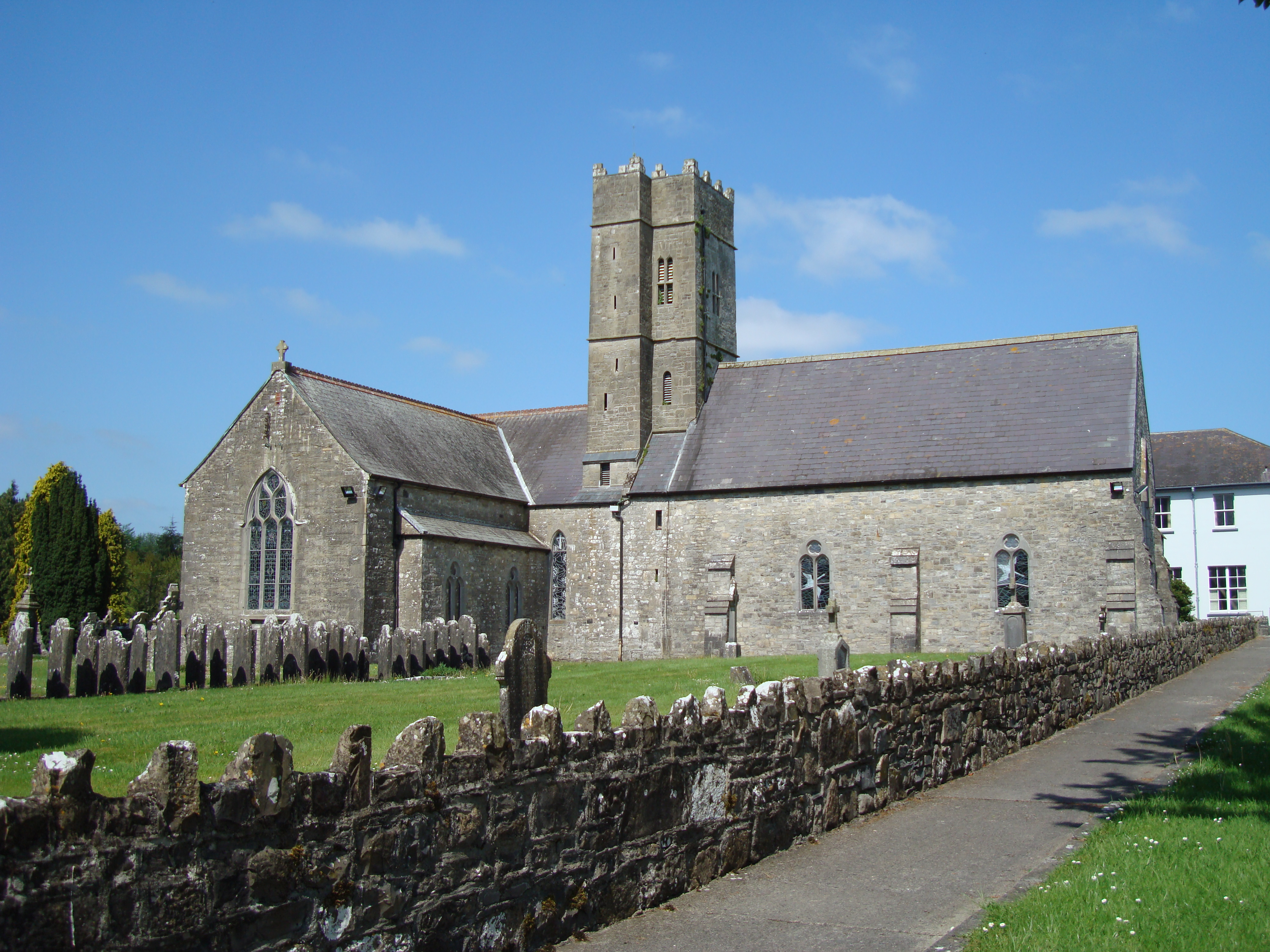 Photograph of Multyfarnham Friary, Co. Westmeath, Republic of Ireland